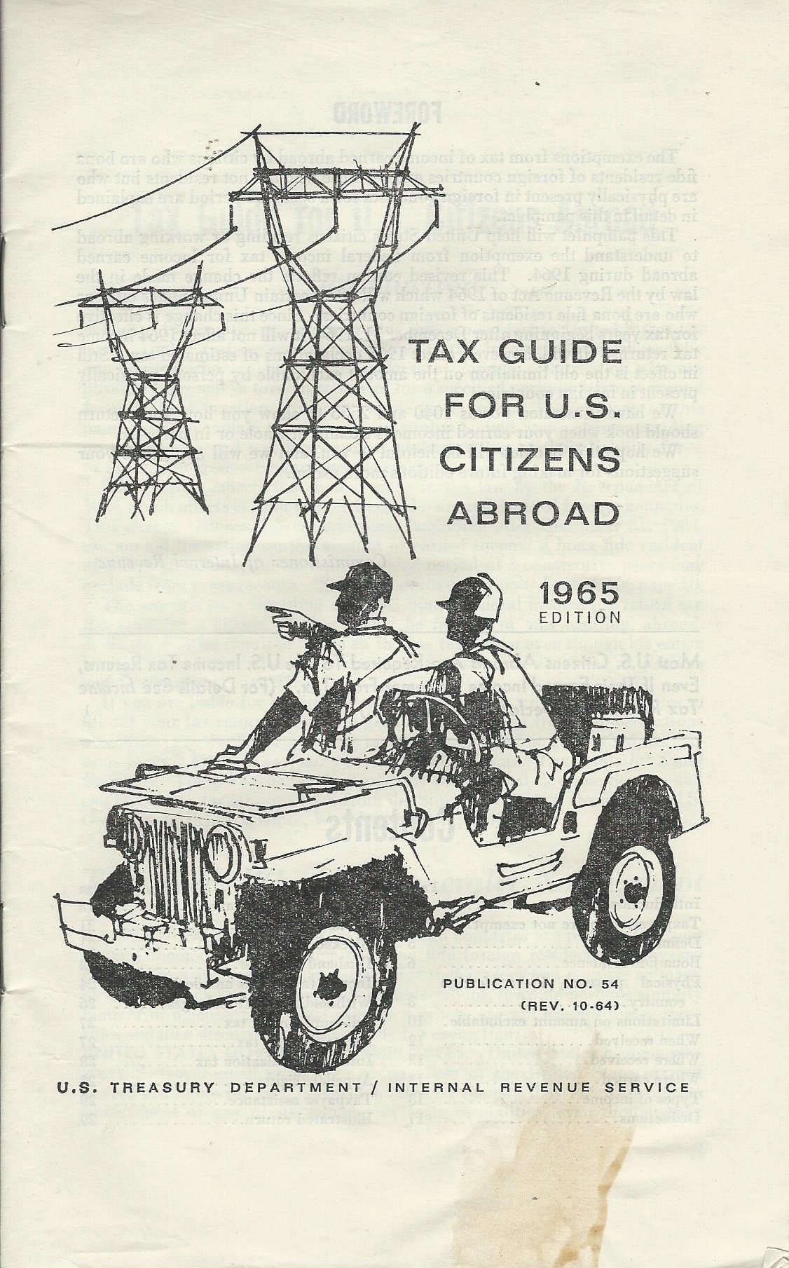 Cover of "Tax Guide for U.S. Citizens Abroad", 1965 Edition, Publication No. 54 (Rev. 10-64), U.S. Treasury Department / Internal Revenue Service, 32 pages.